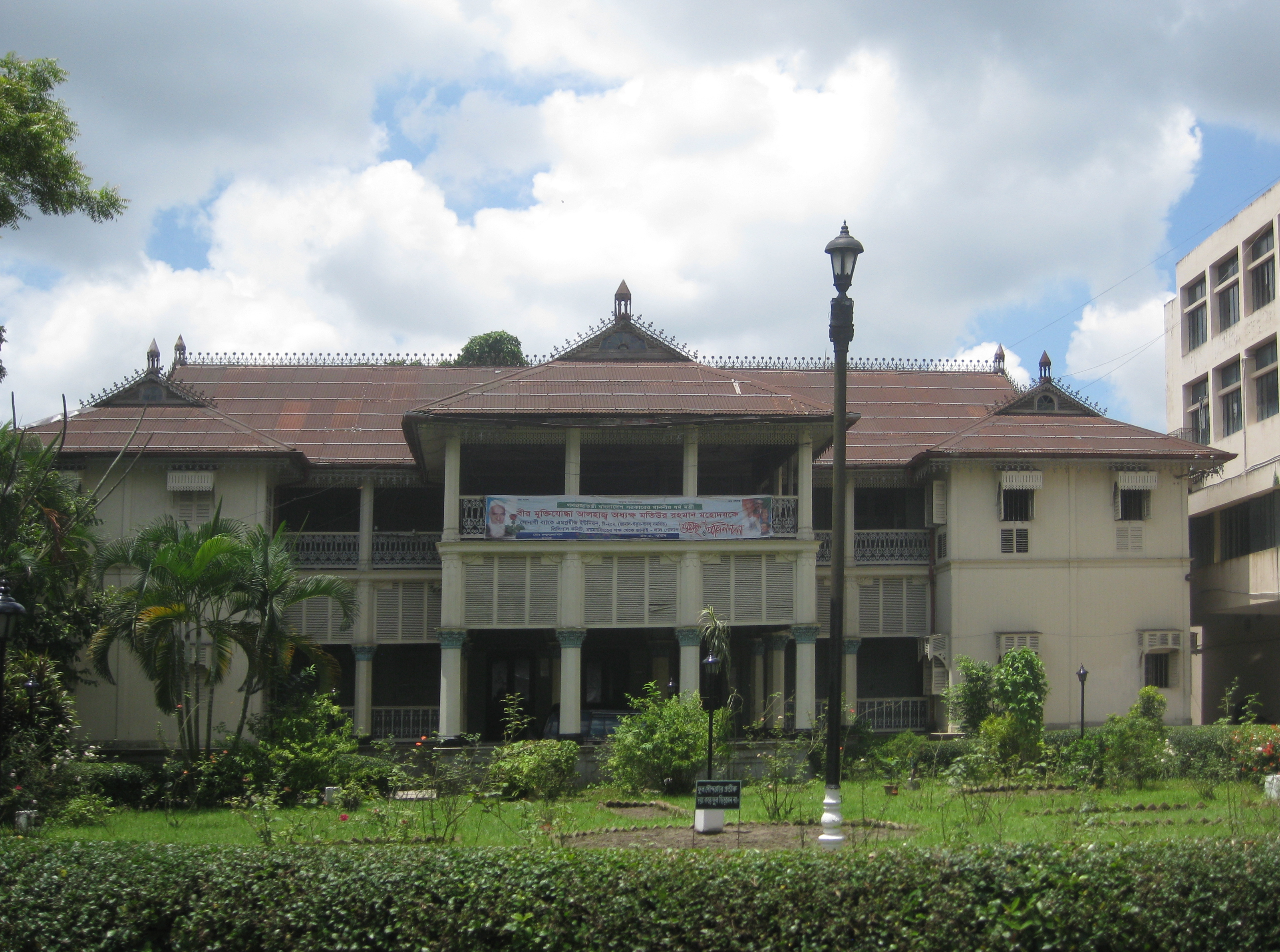 Alexandra castle in Mymensingh, Bangladesh.